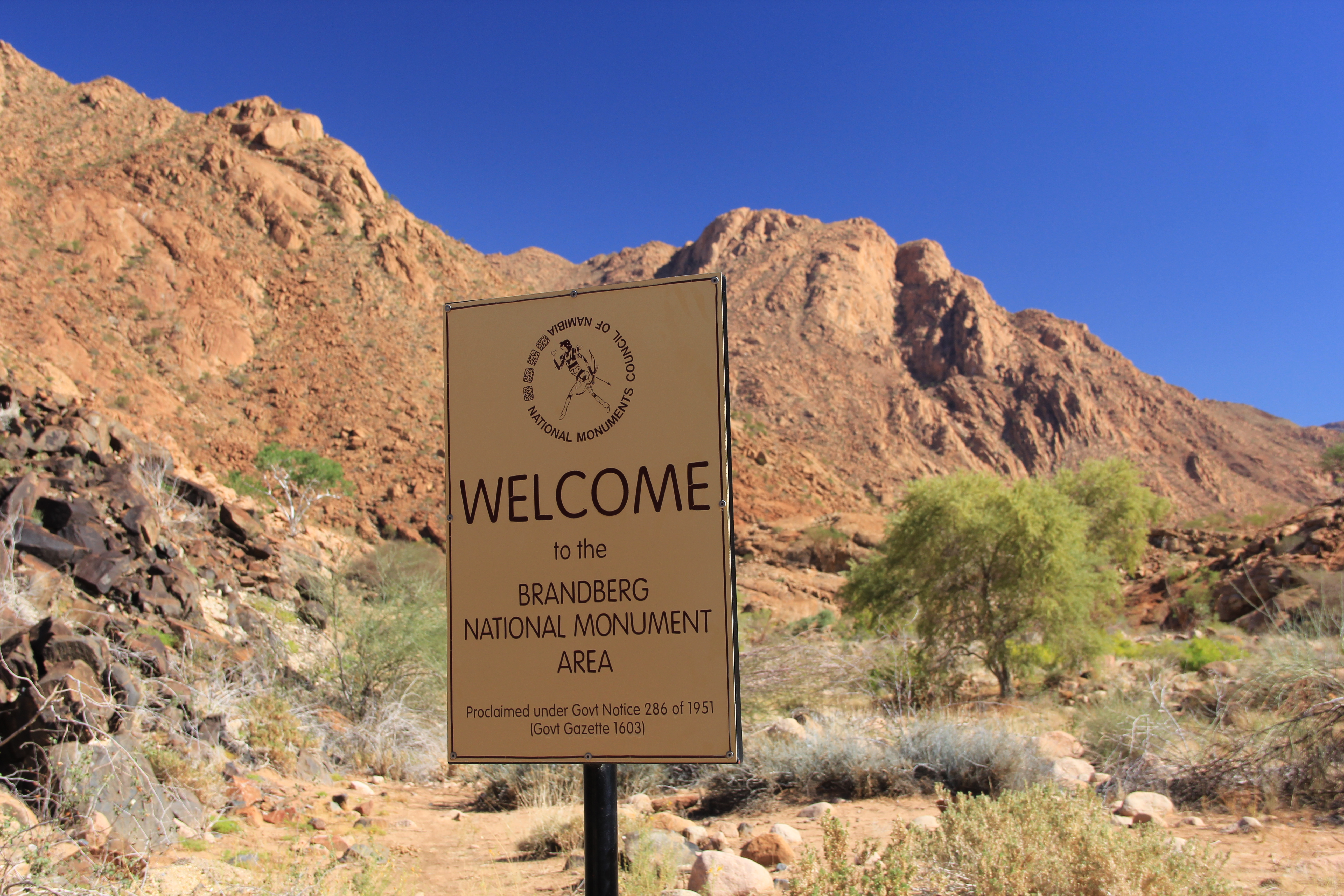 The Brandberg is a National Monument for Namibia